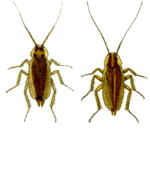 German cockroach